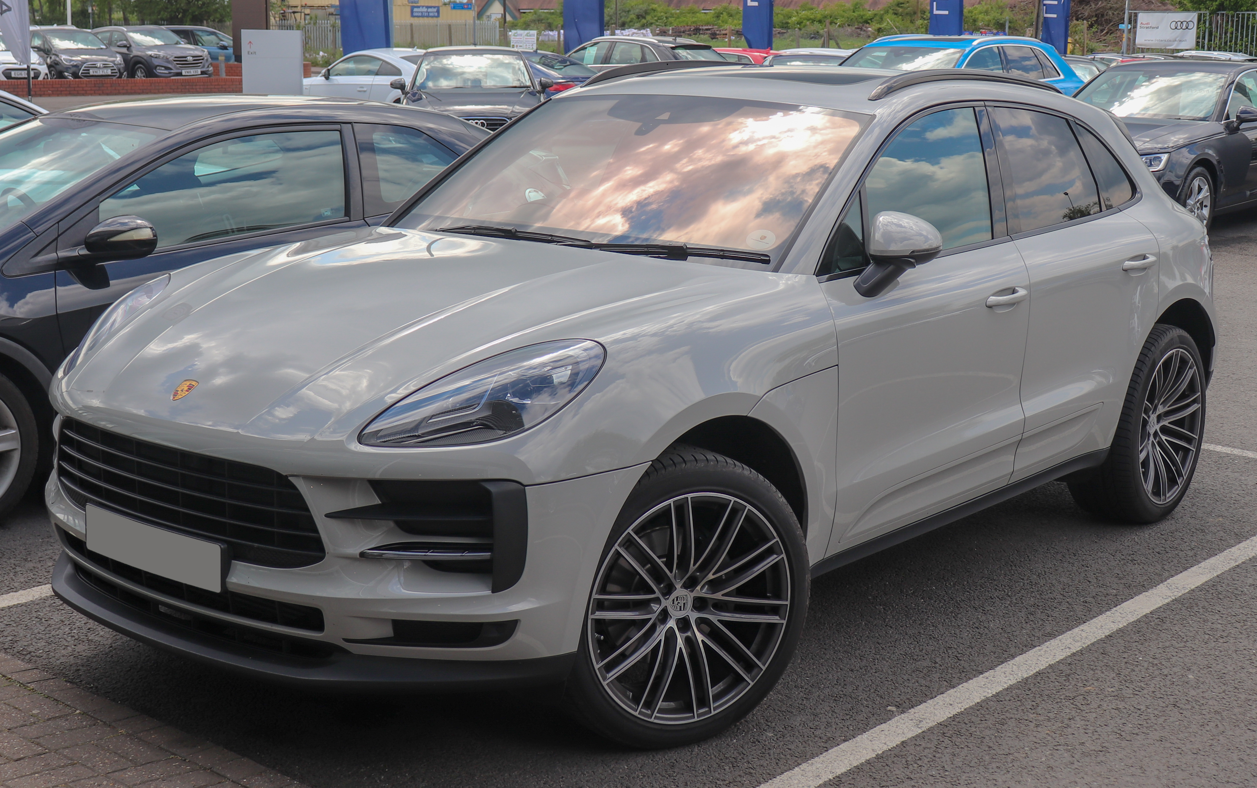 2019 Porsche Macan S-A facelift 2.0 Front Taken in Stratford-upon-Avon